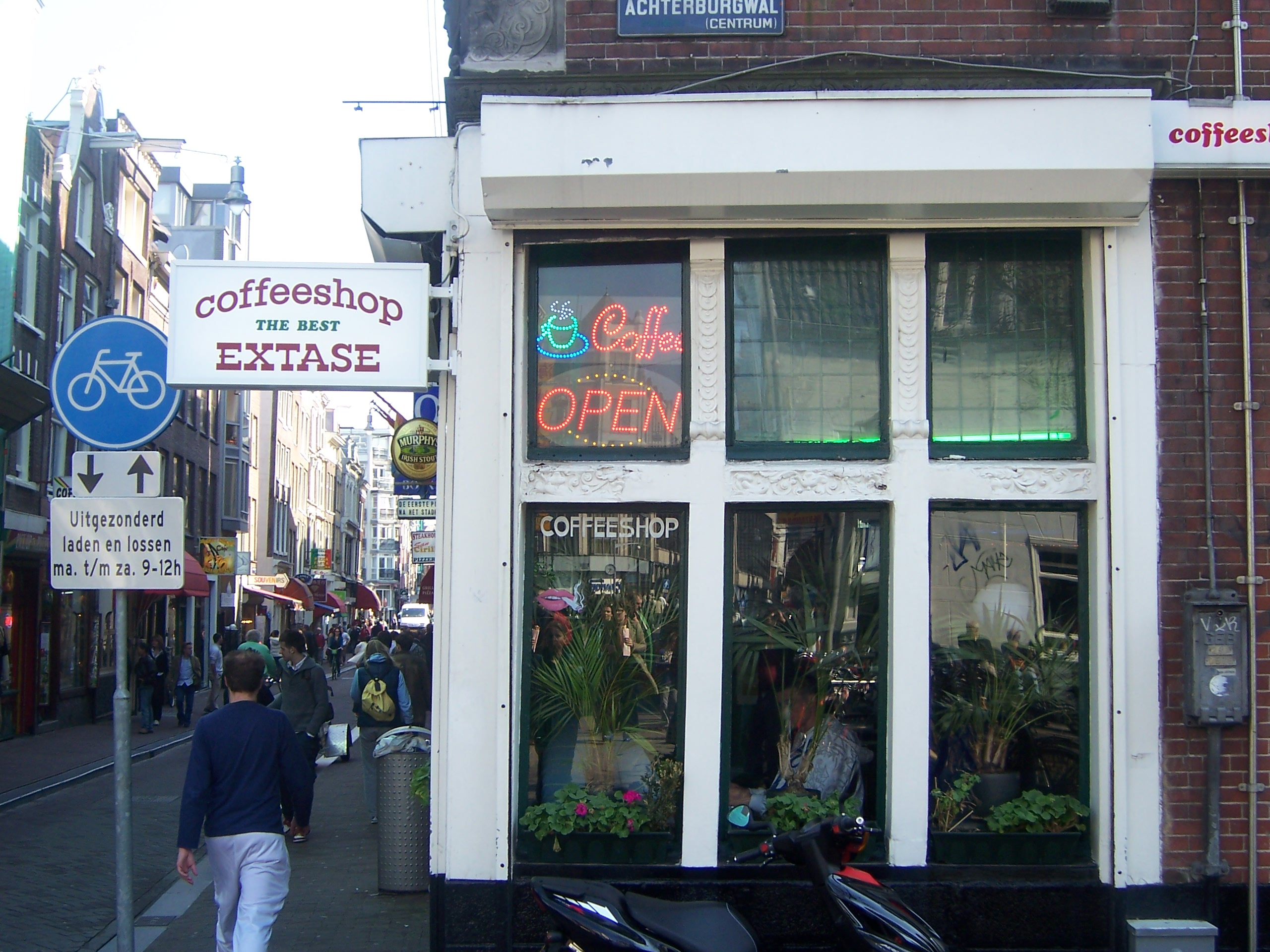 One of the many coffee shops in Amsterdam